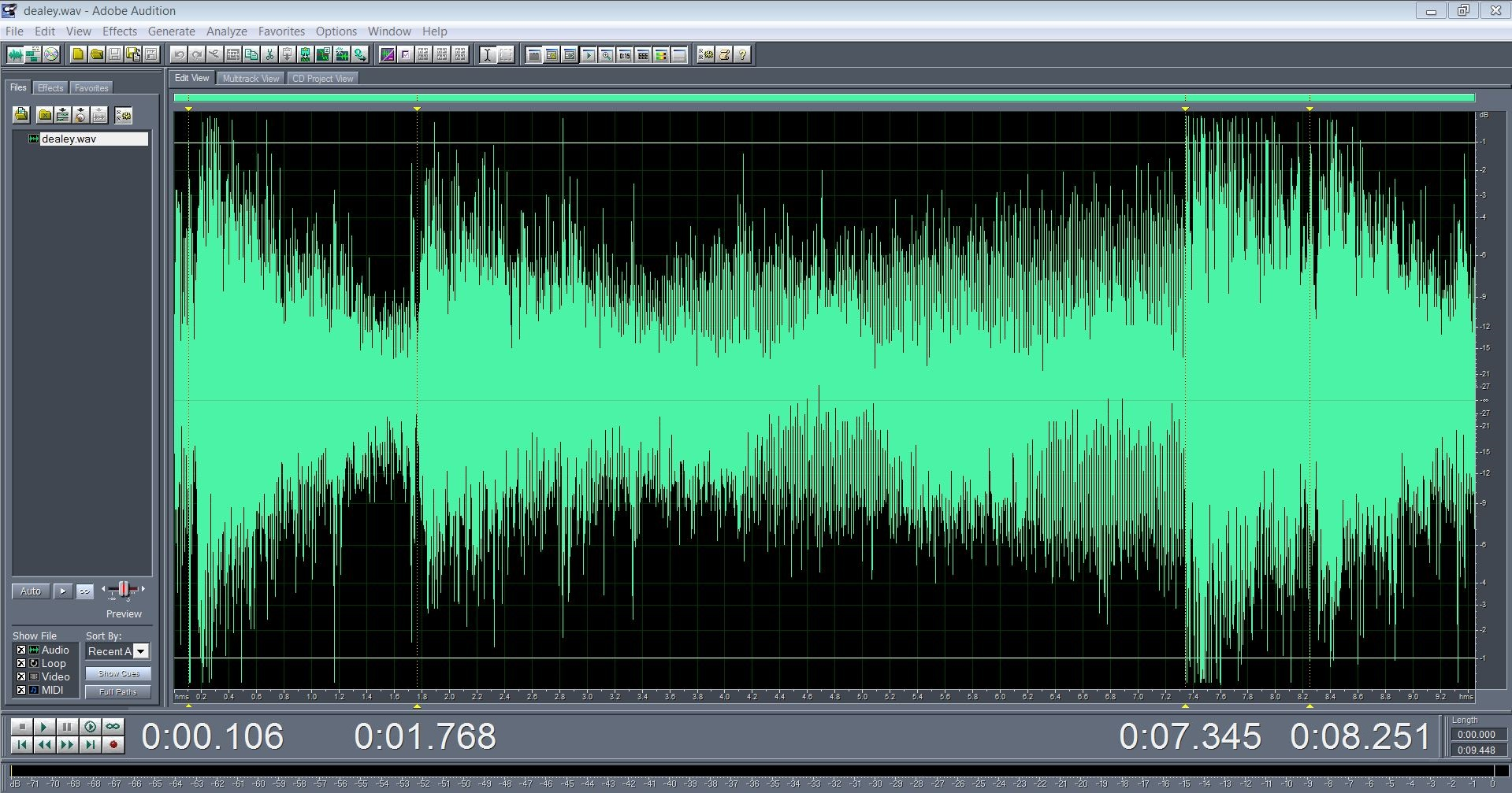 Adobe Audition analysis of recorded Dictabelt sounds relating to the assassination of President John F. Kennedy.Digital computerized oscillogram of recorded sounds relating to the assassination of President John F. Kennedy. Adobe Audition waveform of sounds in the DPD recording.